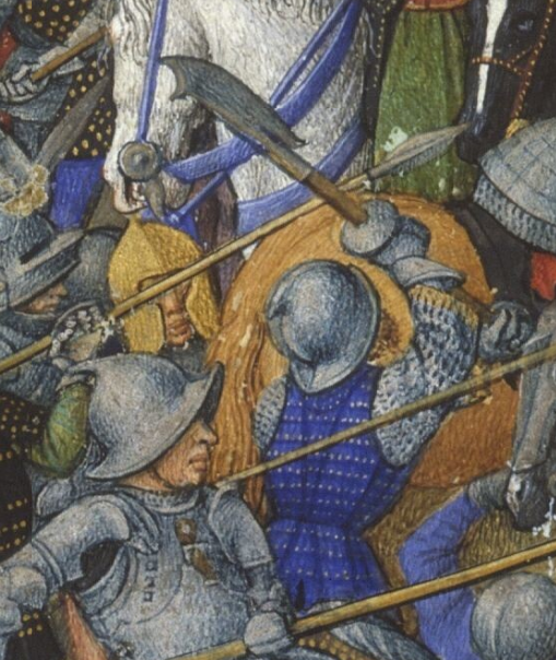 A burgundian depiction of an infantryman wielding an uncommon polearm type, with possible austrian influence on the weapon